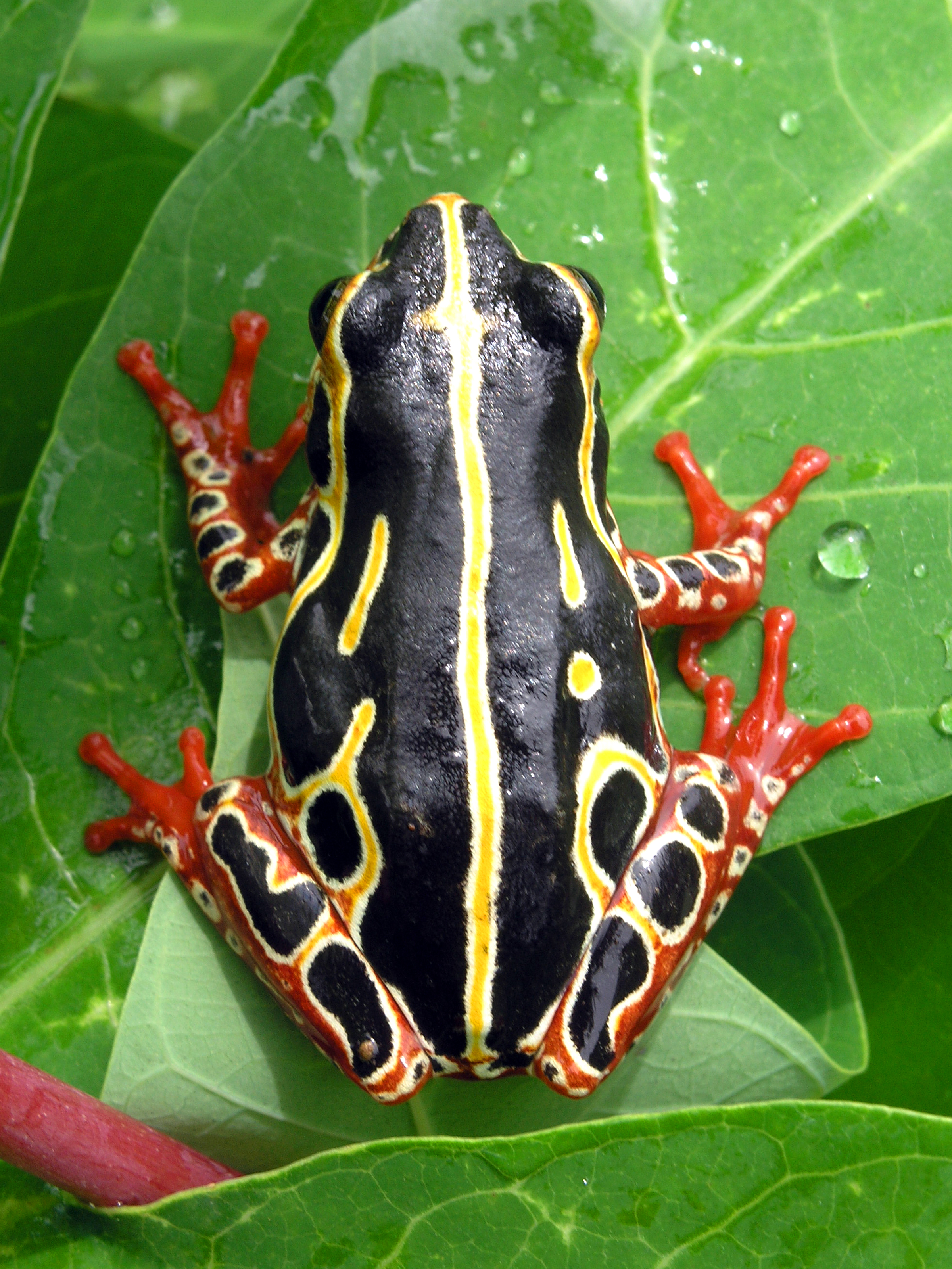 Congo tree frog from Lubumbashi, Democratic Republic of Congo - This individual was found near Lake Karavia on the outskirts of the city of Lubumbashi.